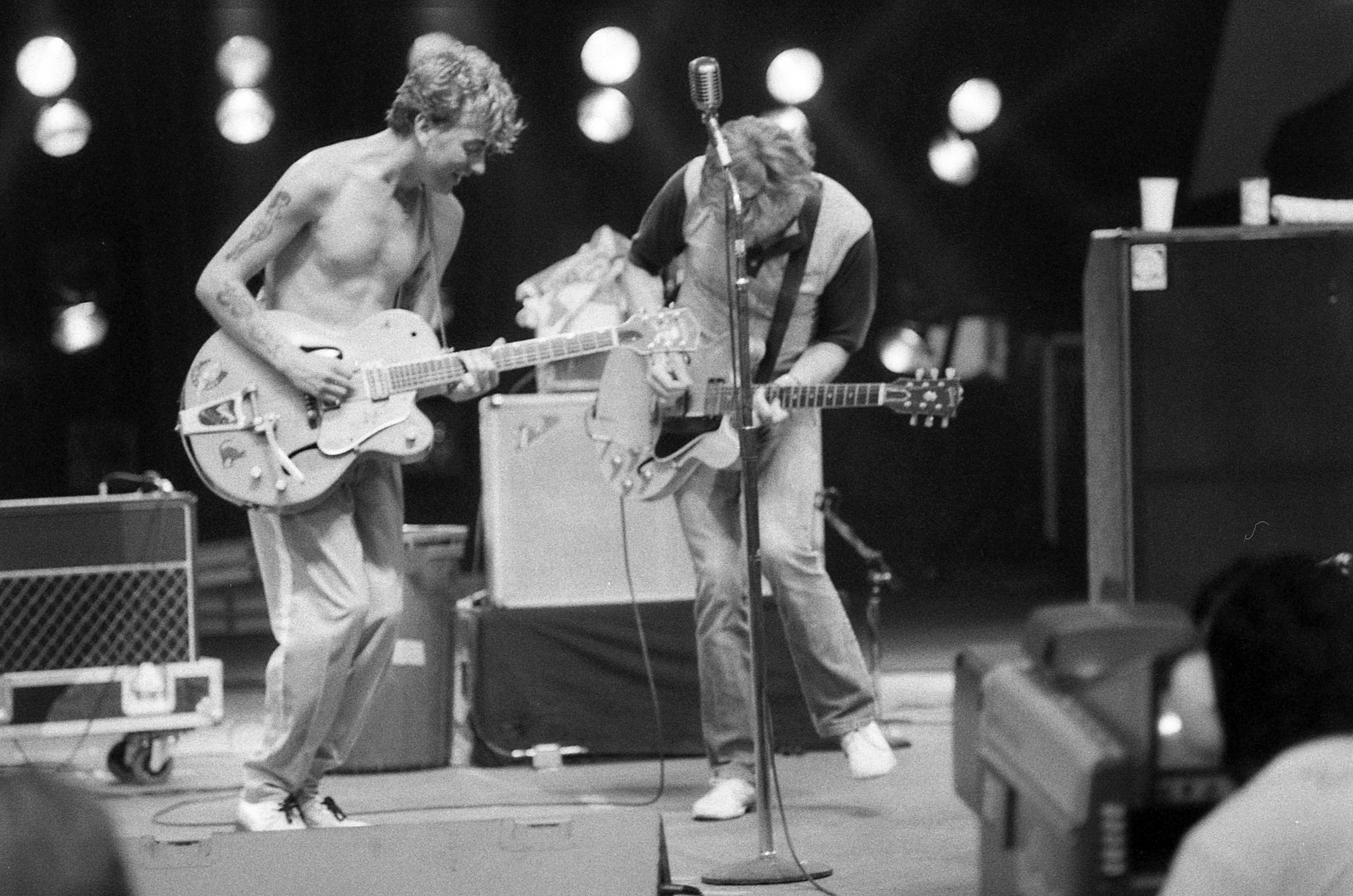 Stray Cats, Brain Setzer, Dave Edmund. Rockpalast 1983